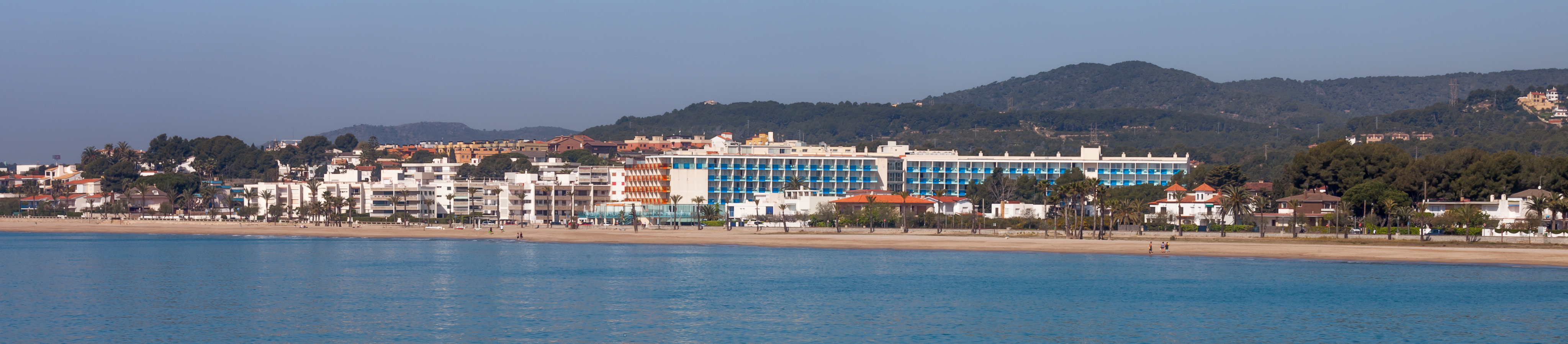 Beach and village of Coma-ruga, , El Vendrell, Tarragona, Catalonia.